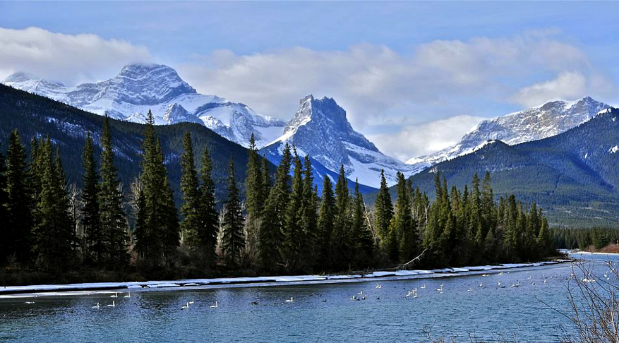 Mount Lougheed and Windtower seen from Bow River. Canadian Rockies